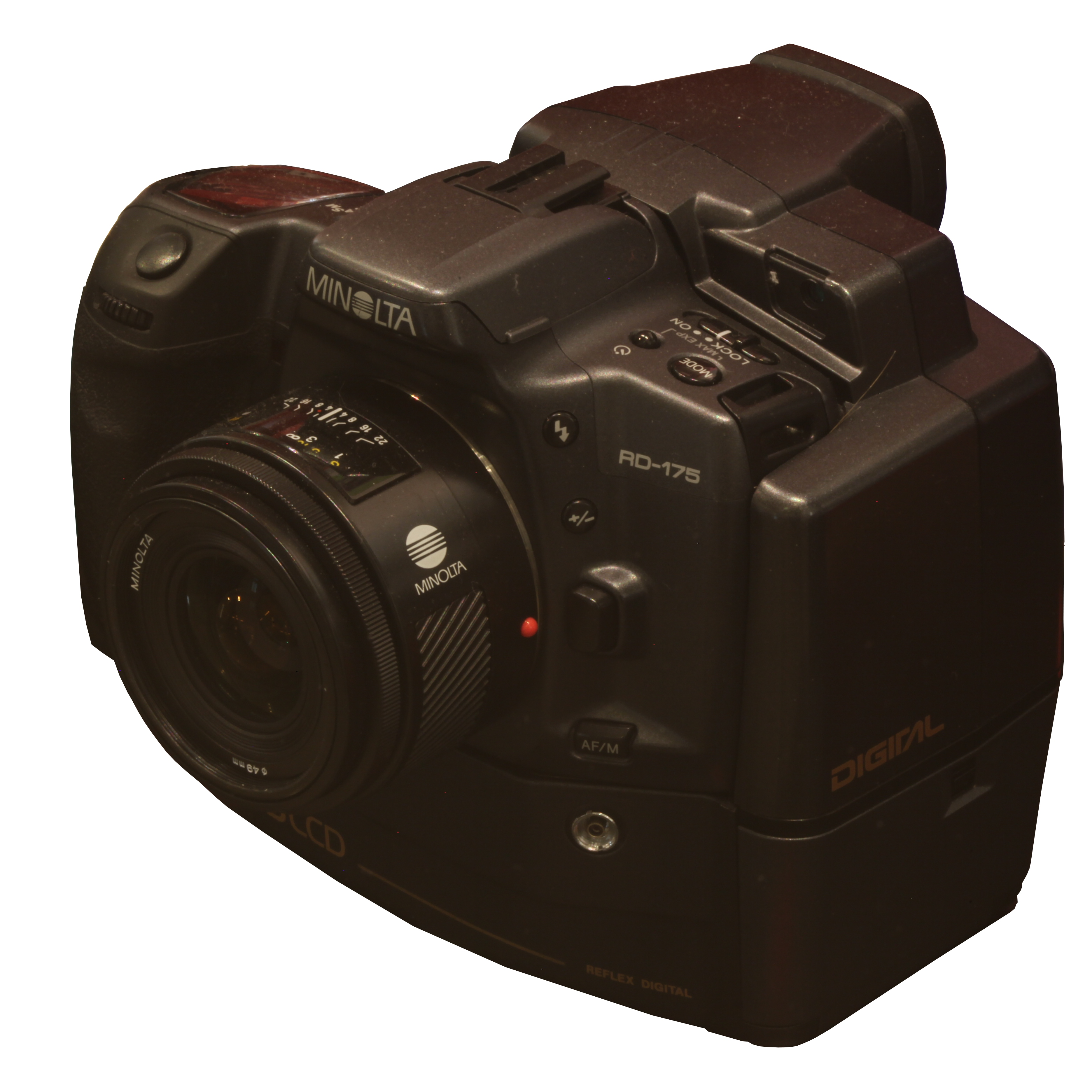 Minolta RD-175